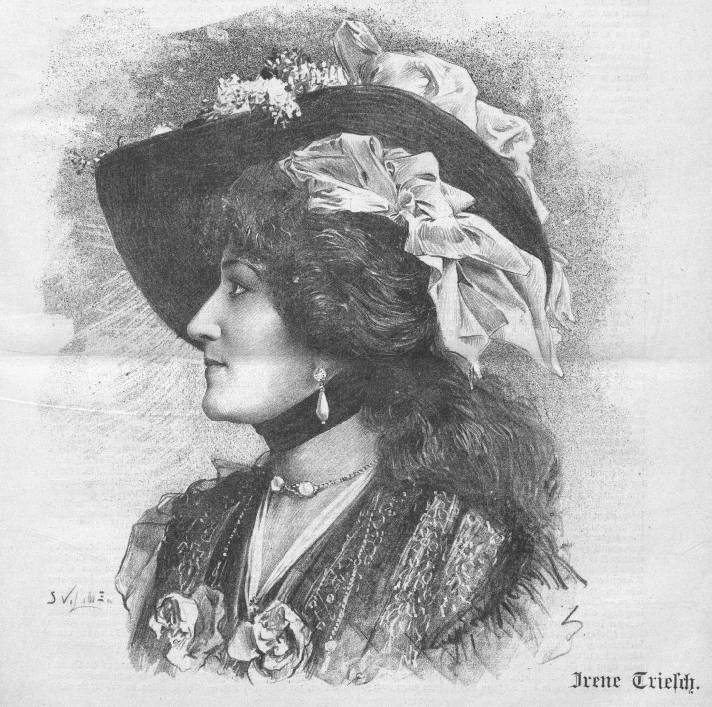 Portrait of Irene Triesch (1875-1964), Austrian actress